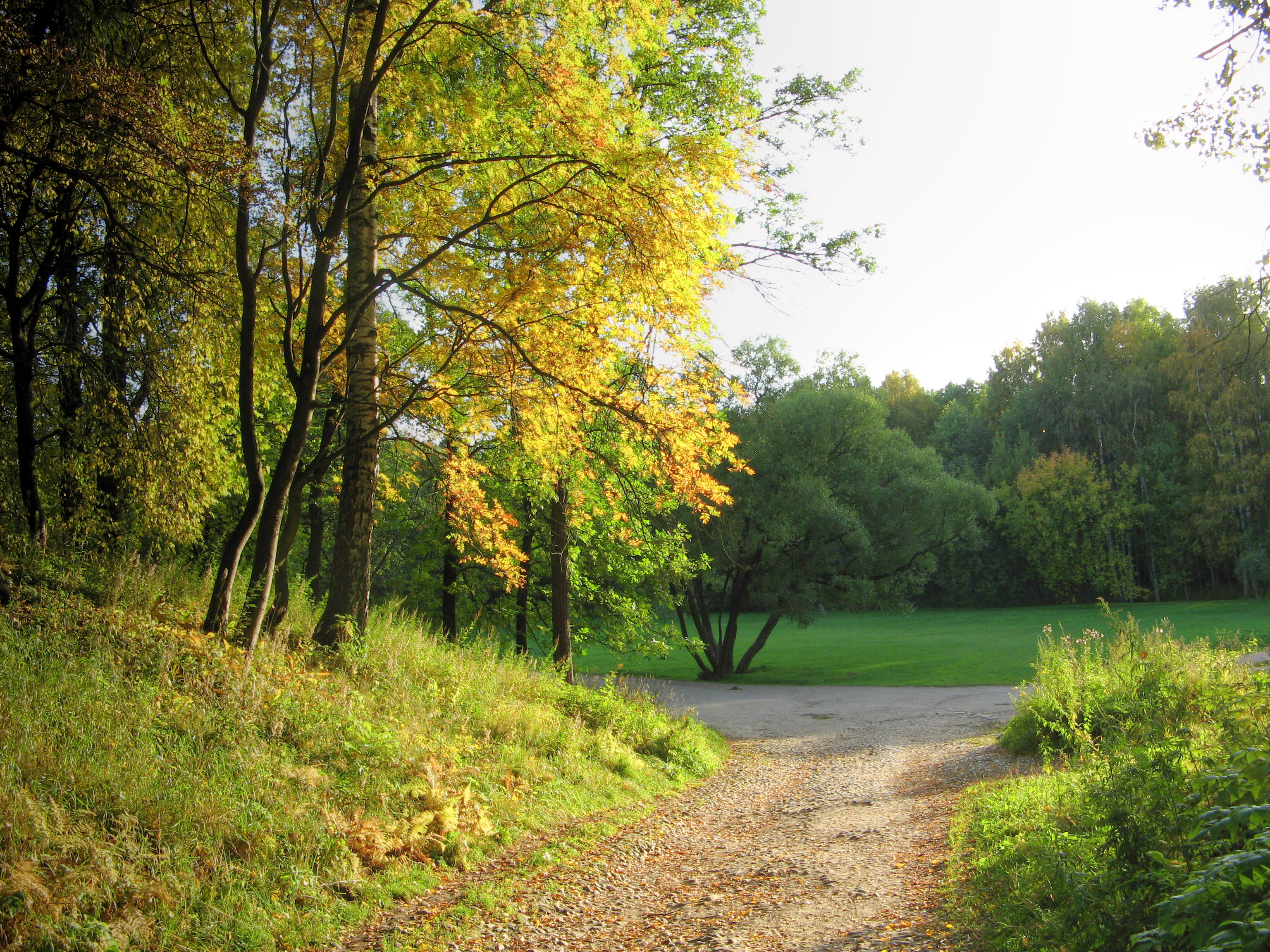 Udelny Park, down from the terrace, Saint-Petersburg